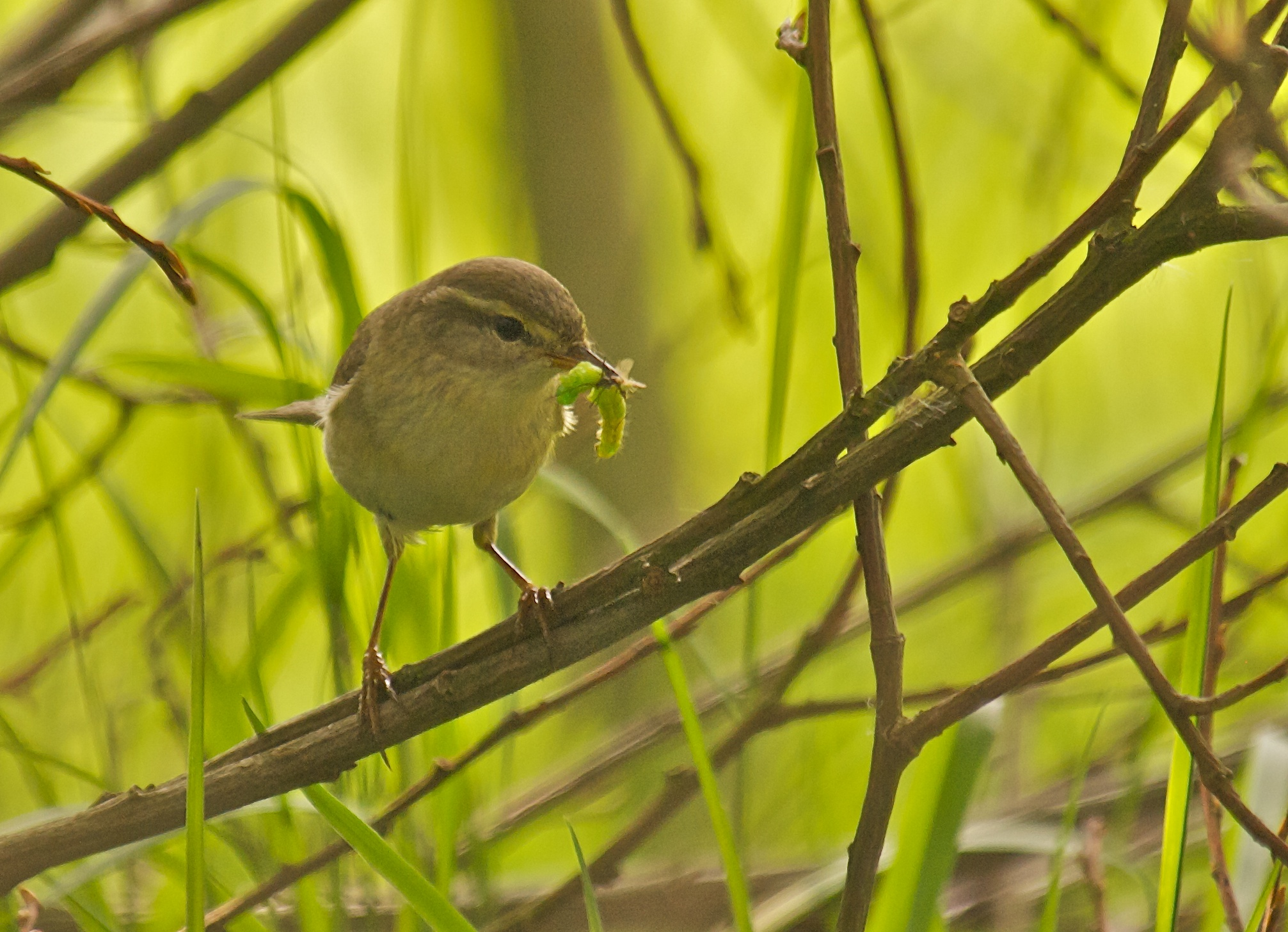 Willow Warbler with food -vvHF 300512